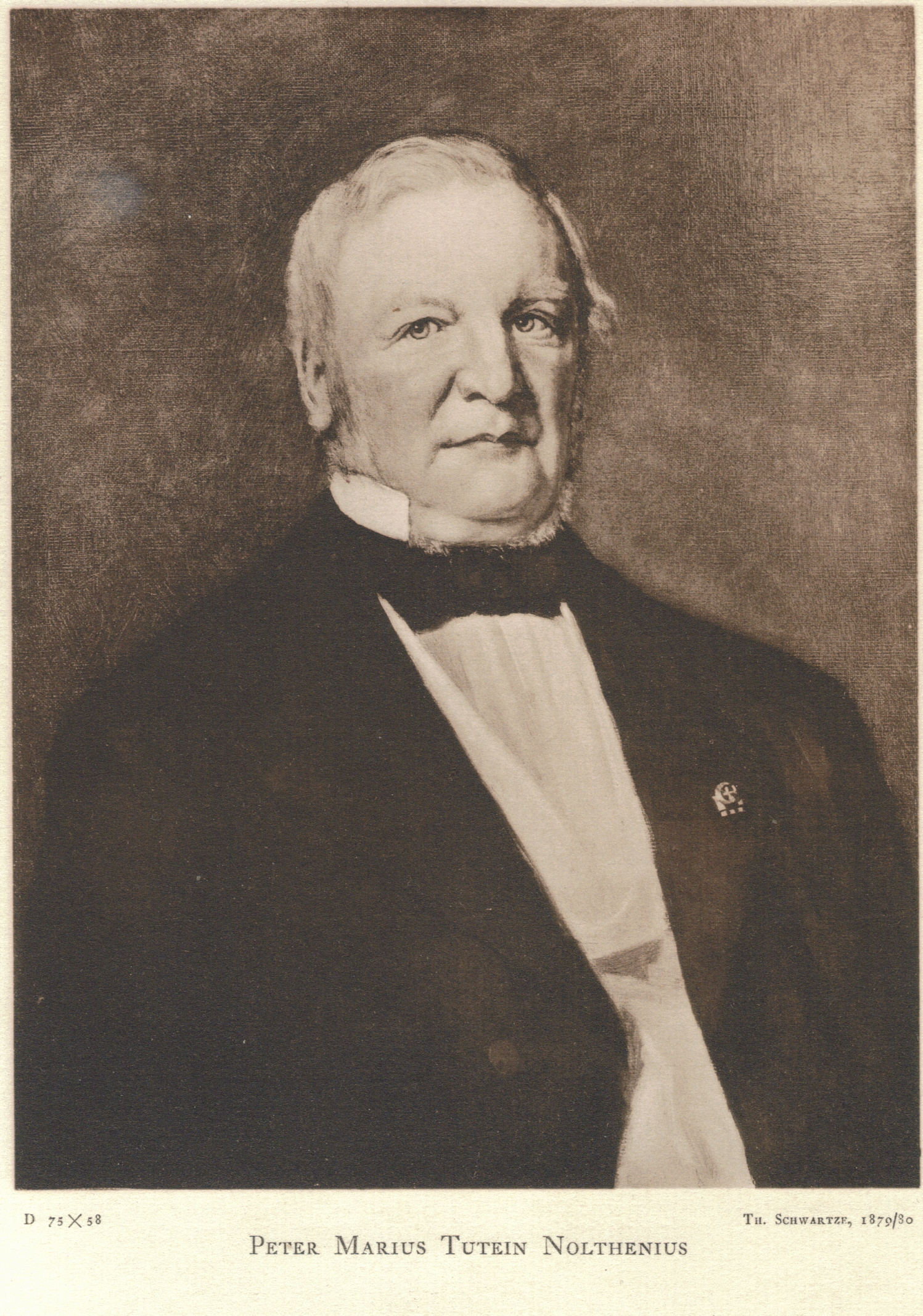 Portrait of Peter Marius Tutein Nolthenius (1814-1896)